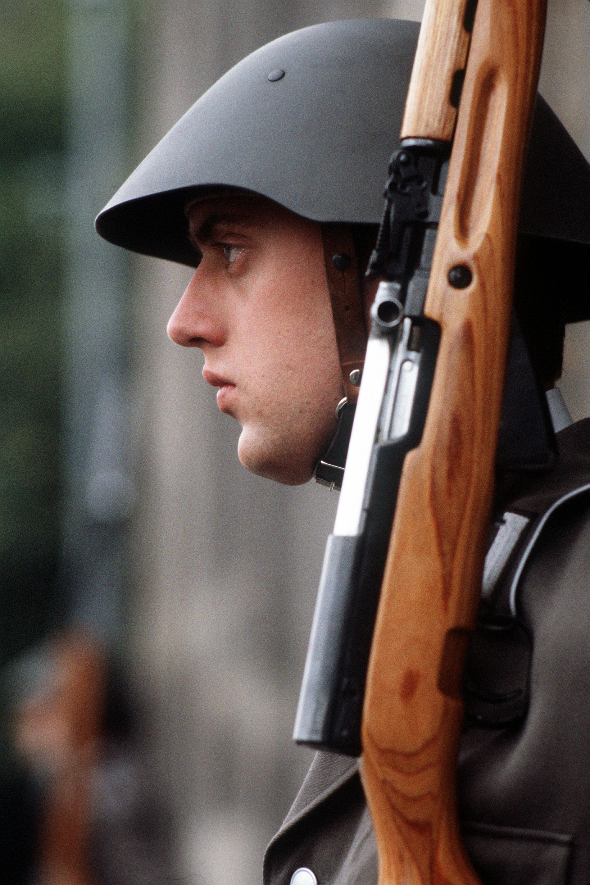 An East German military cadet guards the Neue Wache (New Guard House). The building, located in East Berlin, was dedicated as a "Memorial to the Victims of Fascism and Militarism" following World War II. (Released to Public)